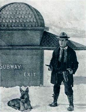 Still from the American film The Frozen North with Buster Keaton, on page 30 of the September 1922 Film Fun.